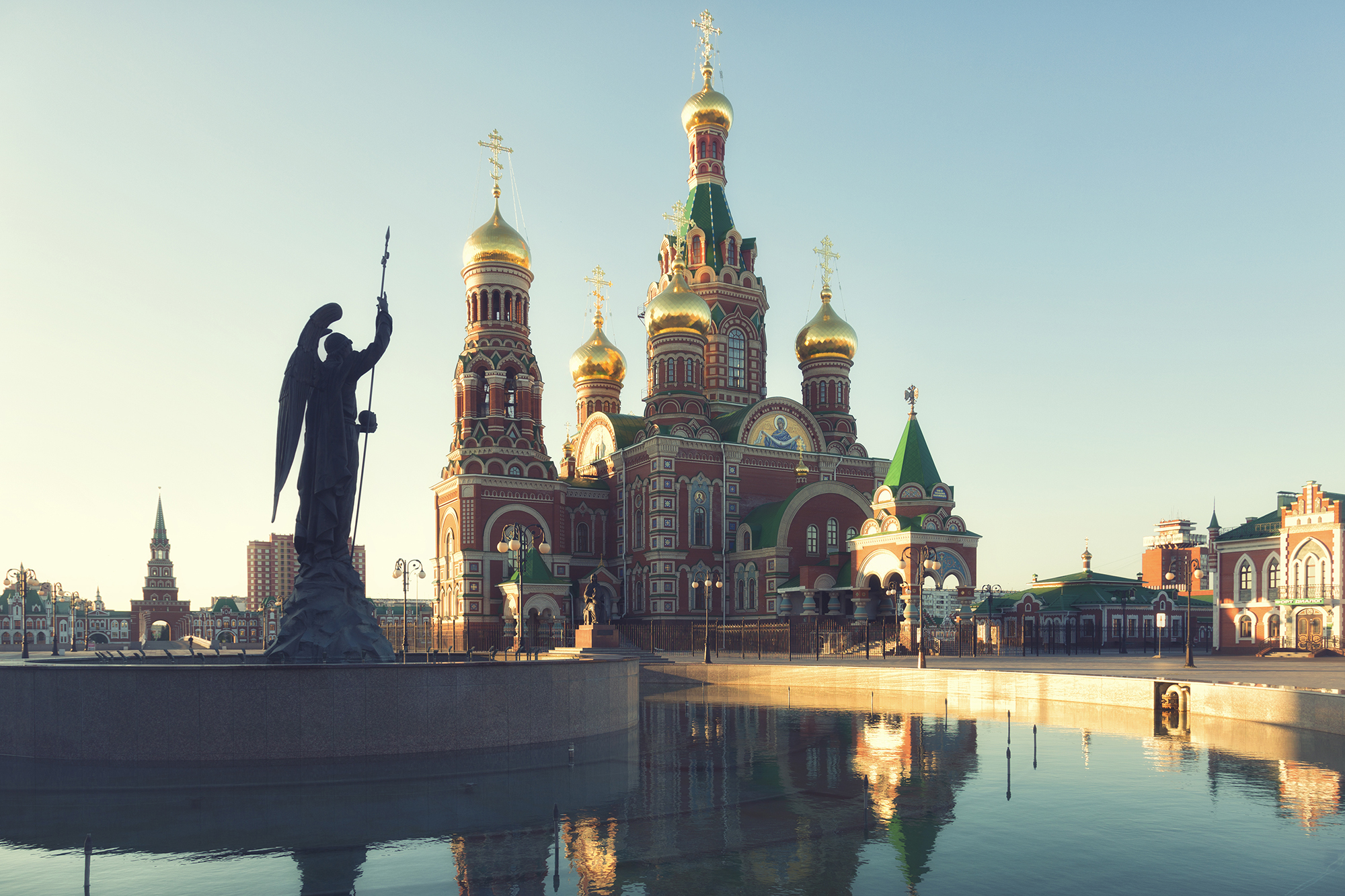 Annunciation Orthodox Cathedral, Revolyutsii Square, Yoshkar-Ola, Mari El, Russia